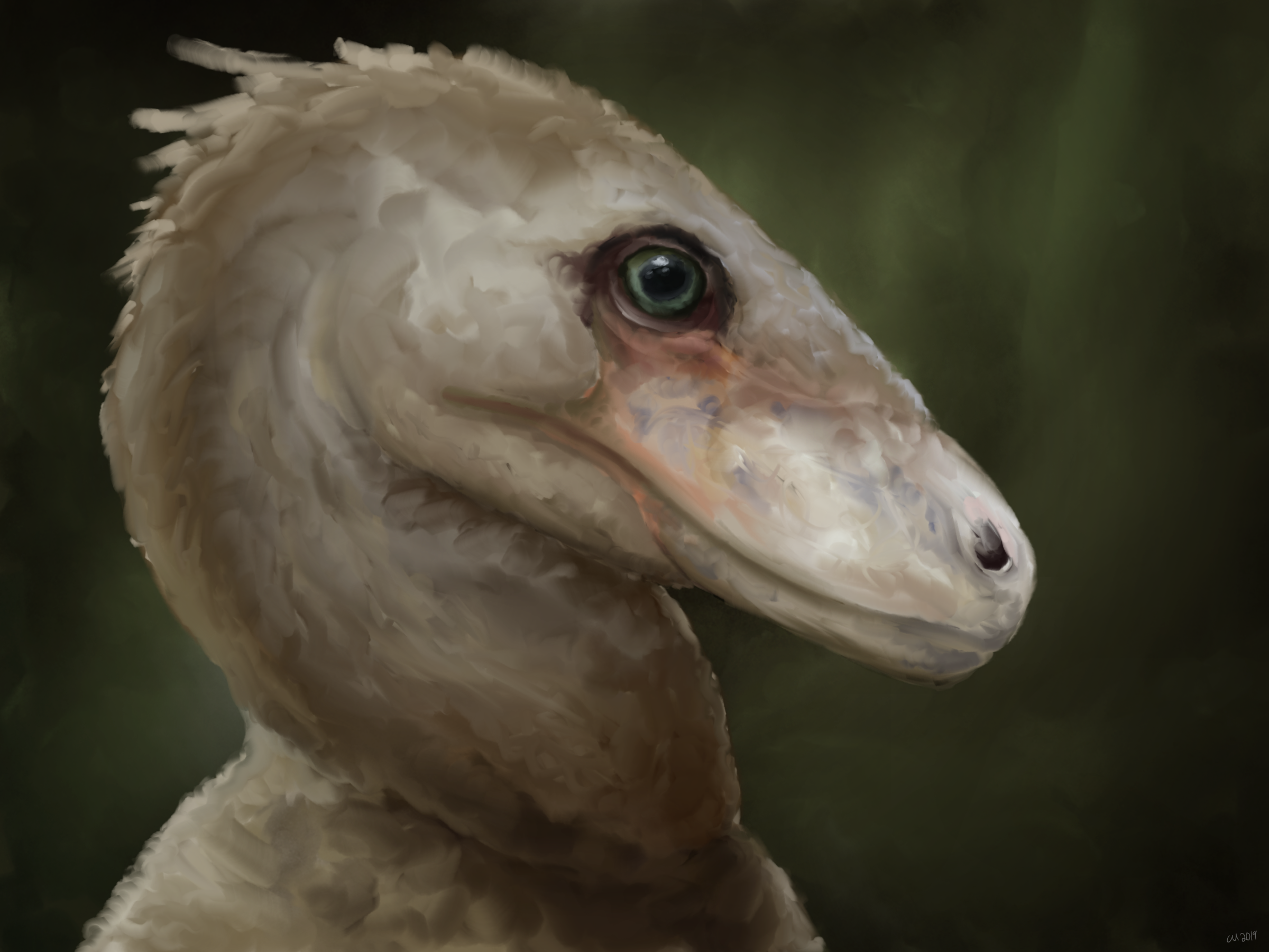 A reconstruction of Itemirus